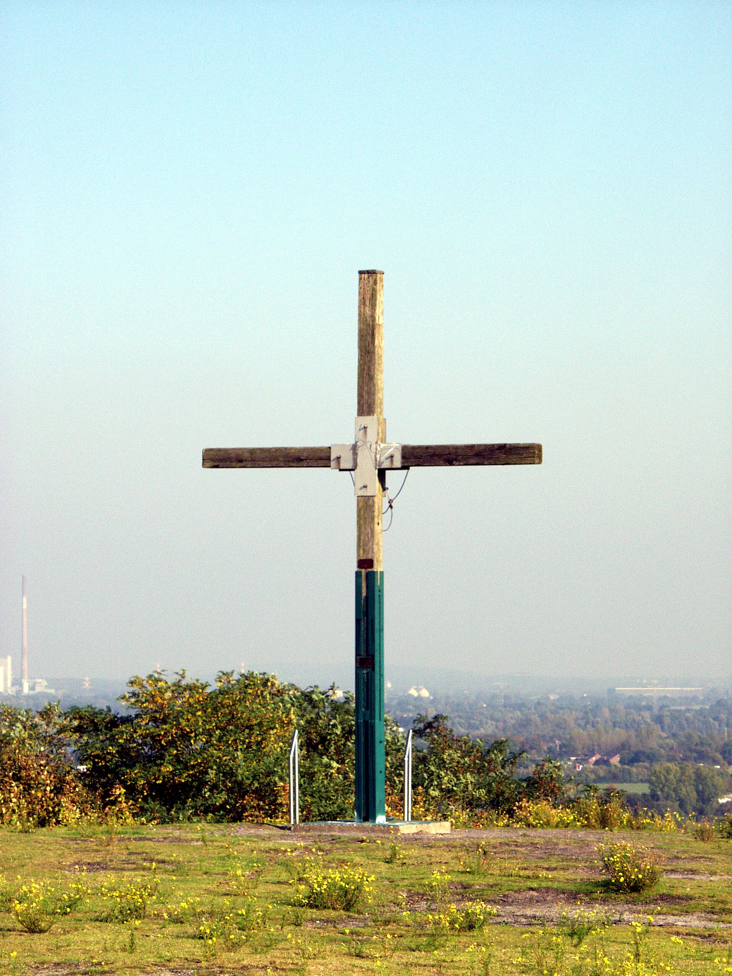 Cross on the summit of the mine heap "Pattberg" at Moers, Germany